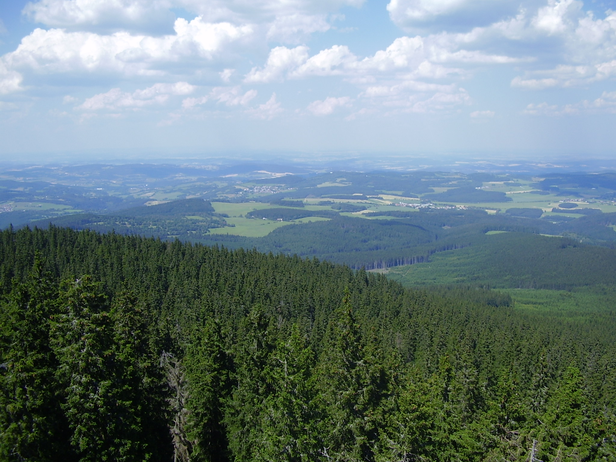 Observation tower Boubin - example of view